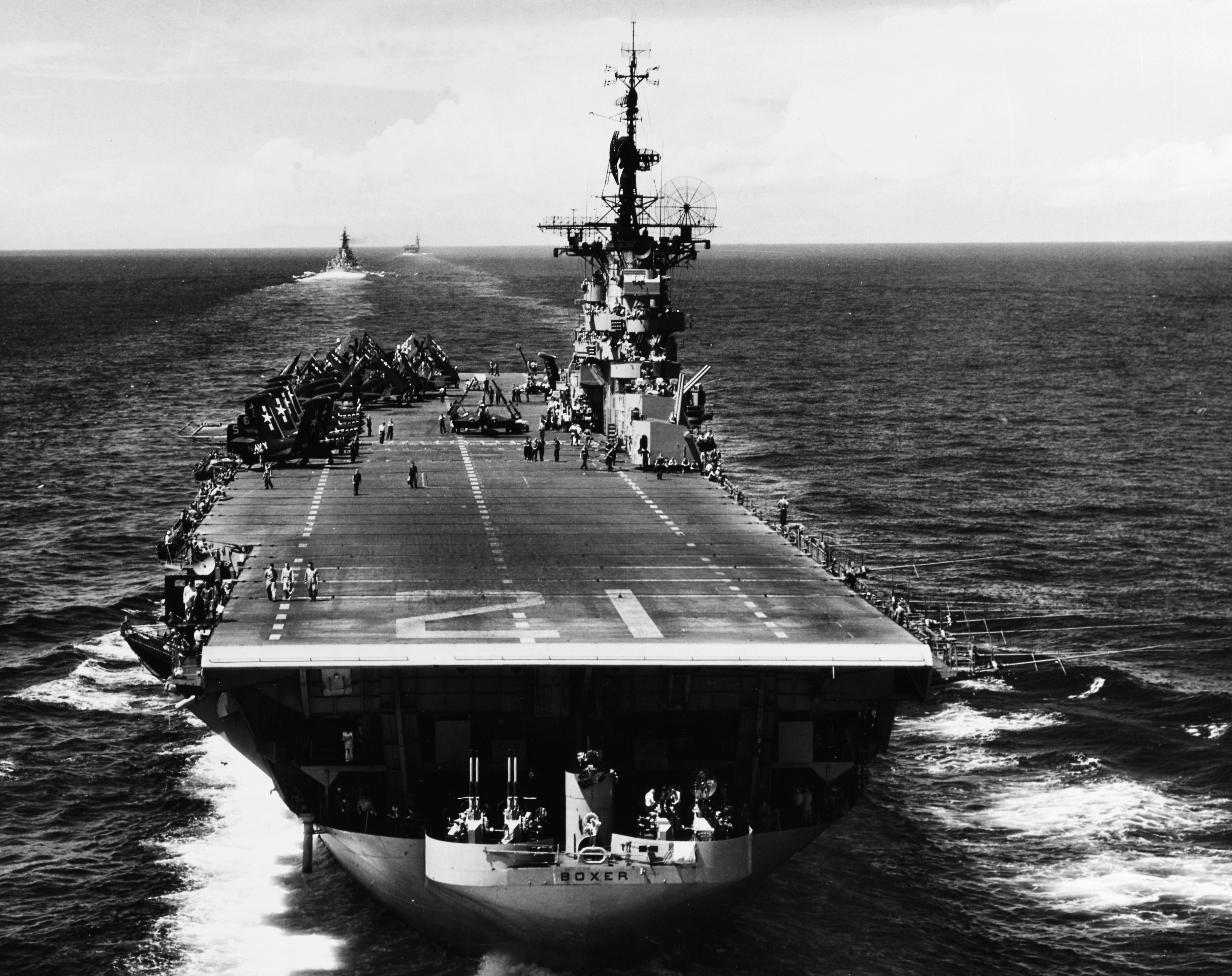 The U.S. aircraft carrier USS Boxer (CVA-21) operating off North Korea in July 1953. Her flight deck crew is respotting aircraft in preparation for recovery of her last strike. Another aircraft carrier and the battleship USS New Jersey (BB-62) are steaming ahead of Boxer.